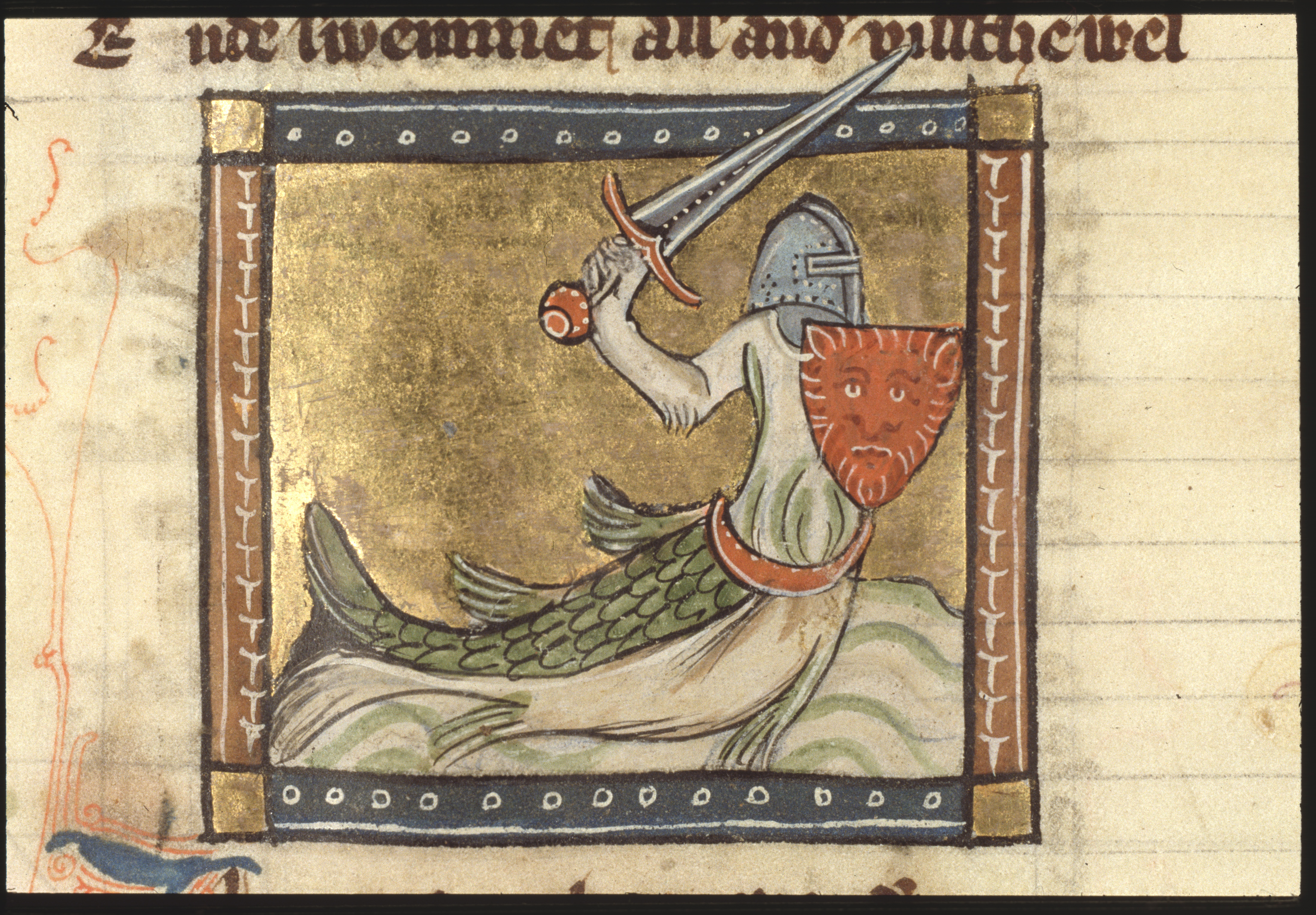 Zitiron - miniature from folio 111r from Der naturen bloeme (KB KA 16) by Jacob van Maerlant This miniature is part of the righthand side folio 111r